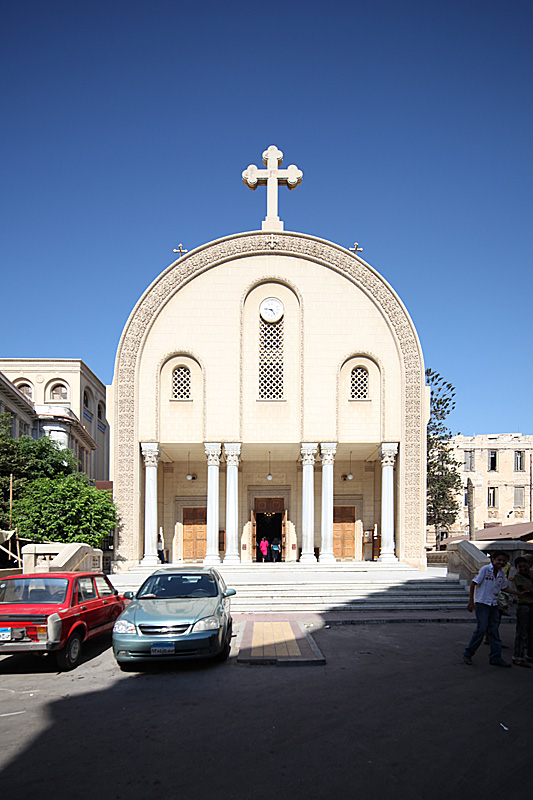 Façade the Coptic orthodox Cathedral of St. Mark, Alexandria, Egypt